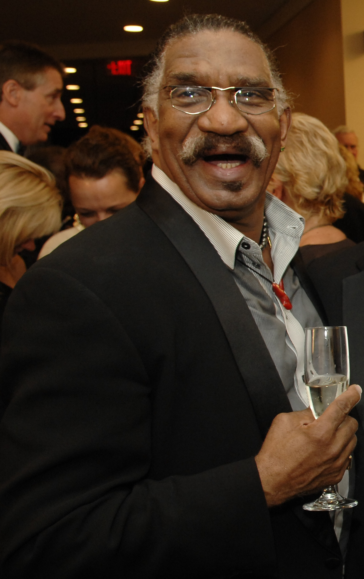 Garth Fagan in 2009. This file has been extracted from another file: Garth Fagan, NYS Assemblyman Joseph Morelle, NYS Senator James Alesi, and Nazareth College President Daan Braveman.jpg